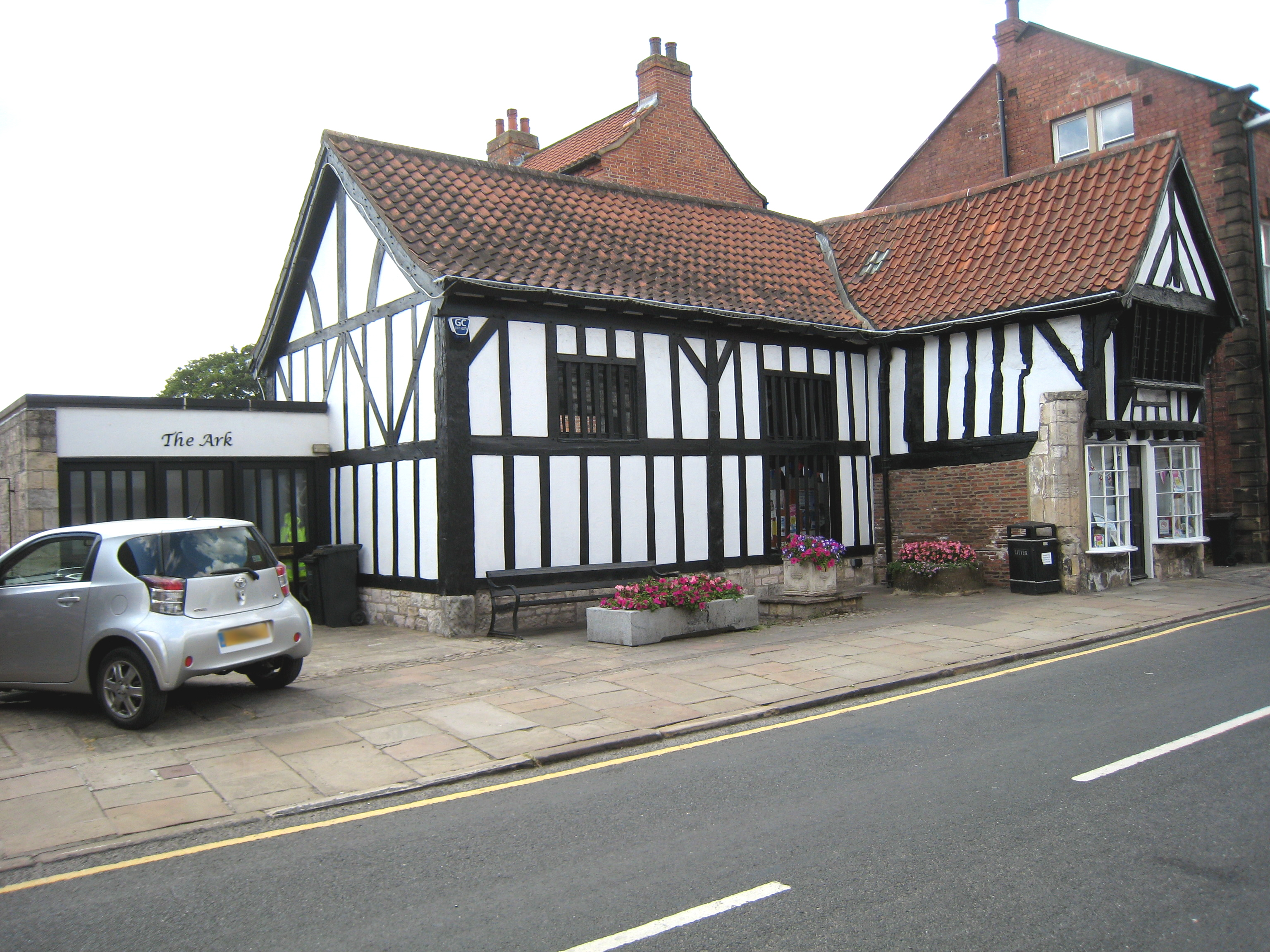 The Ark, Kirkgate, Tadcaster. Now council offices.